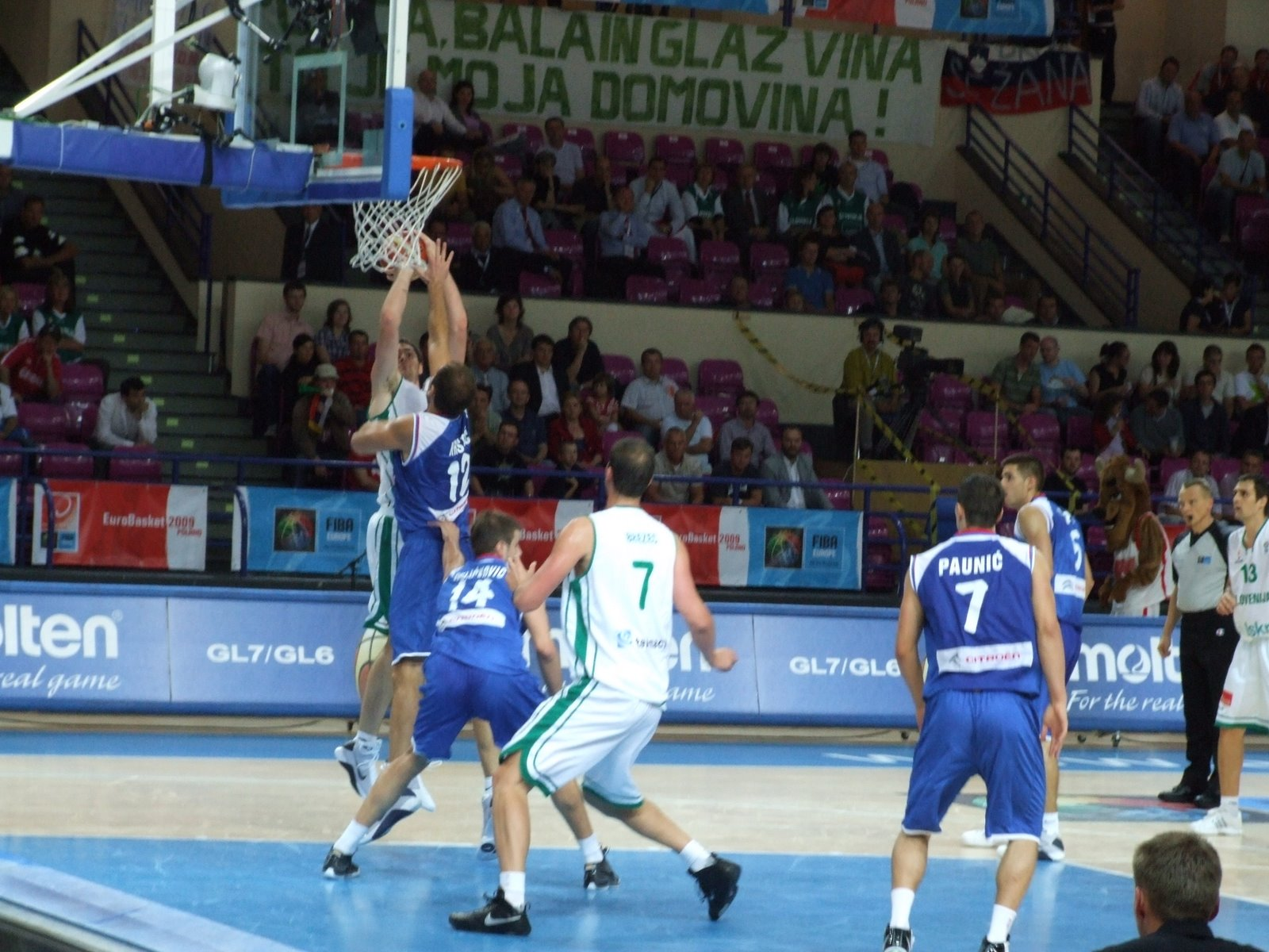 Slovenia vs. Serbia at EuroBasket 2009.